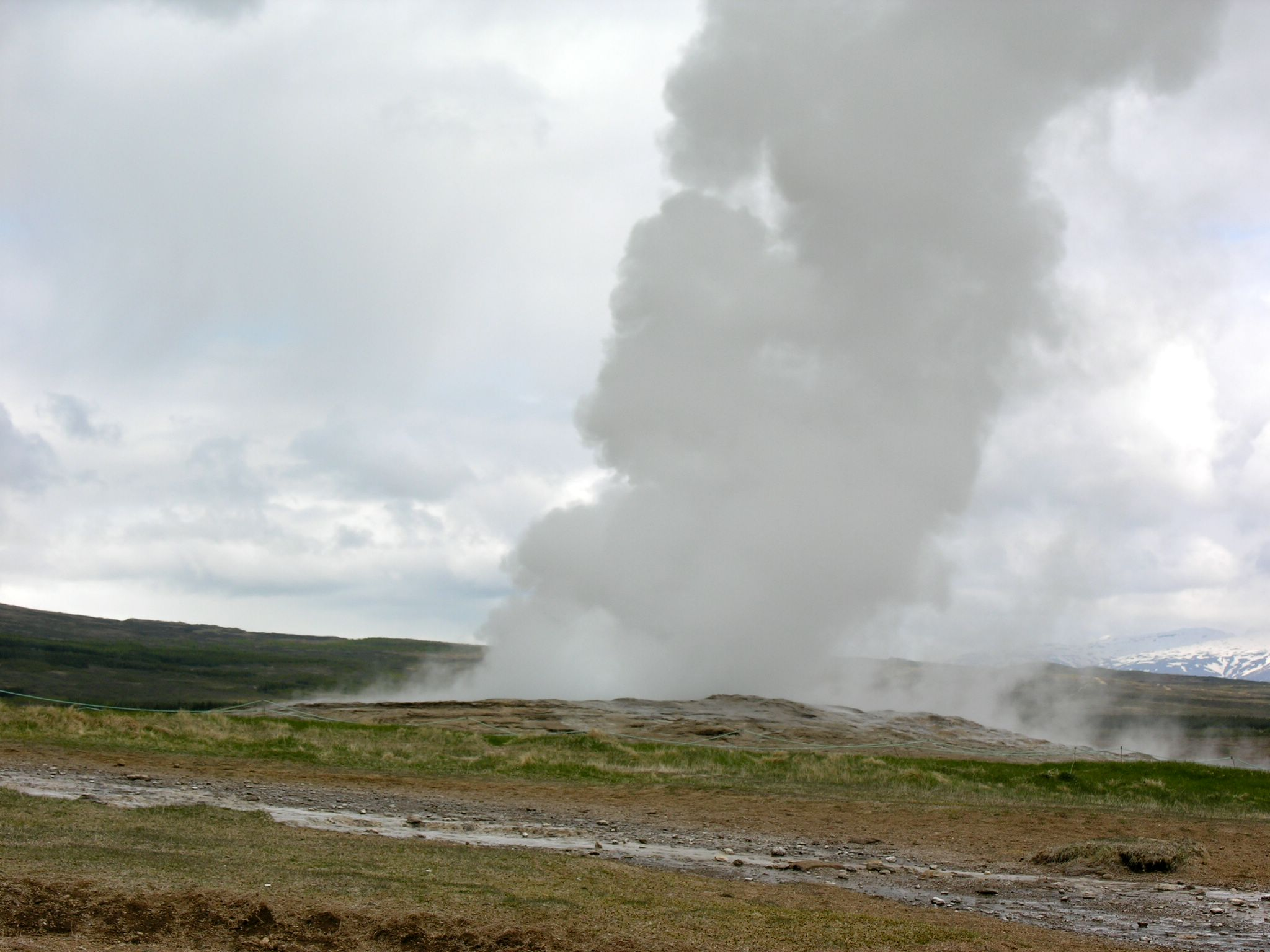 Geysir, Iceland